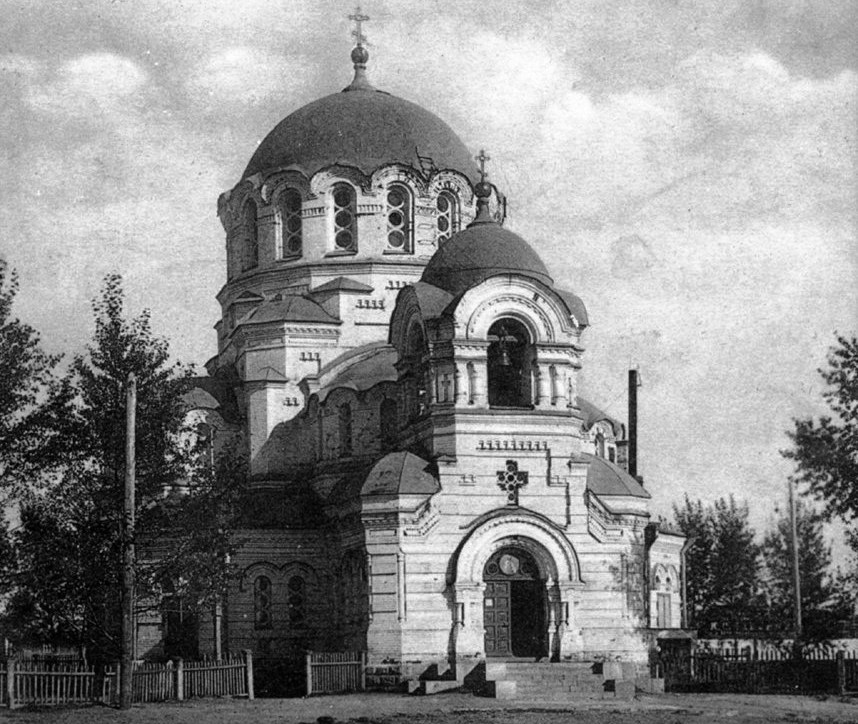 St. Alexander Nevsky Cathedral in Novonikolaevsk (now Novosibirsk), 1905